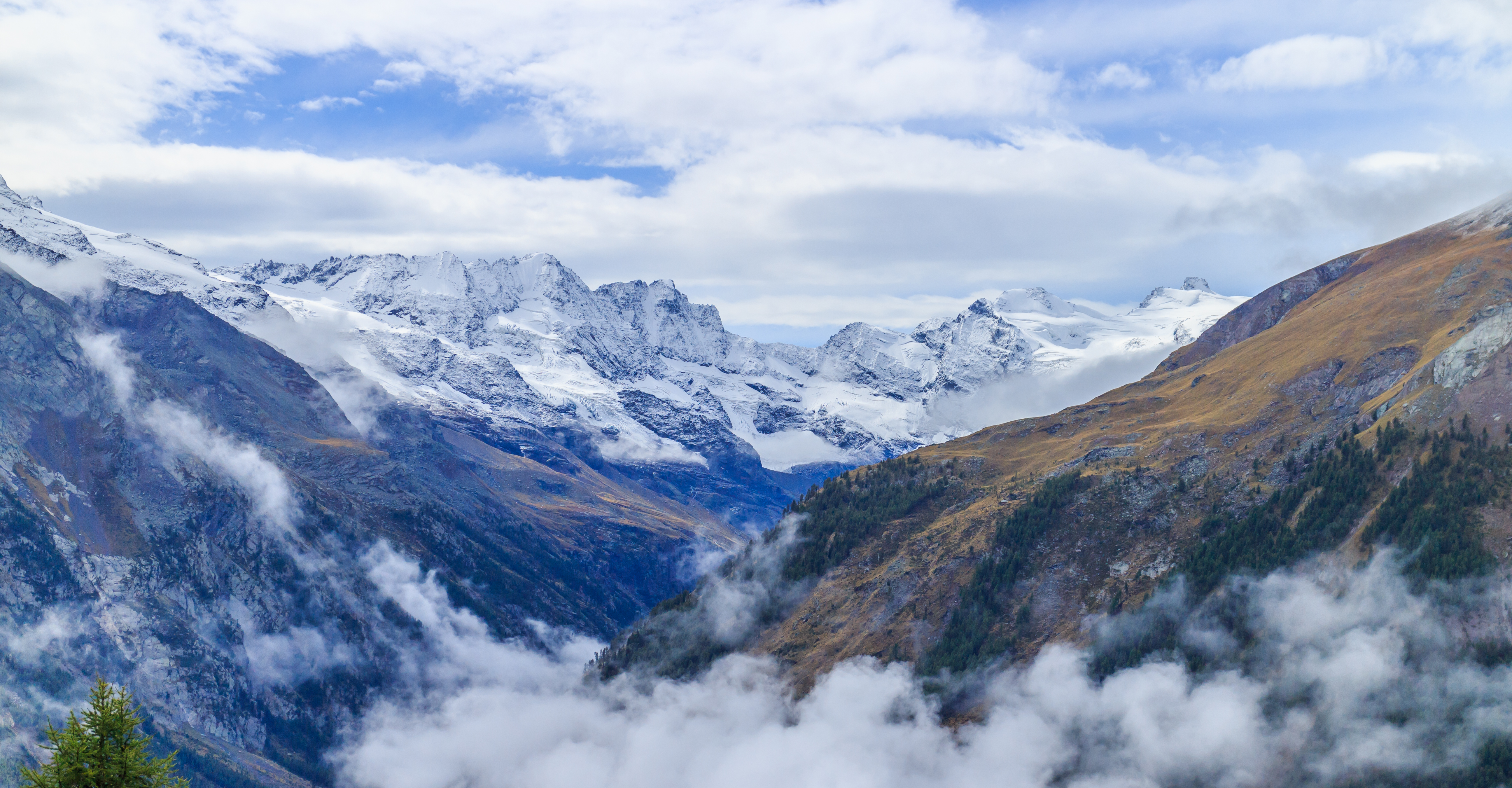 Mountain hike of Gimillan (1805m.) At Colle Tsa Sètse Cogne Valley (Italy). View of the surrounding Alpine peaks of Gran Paradiso.